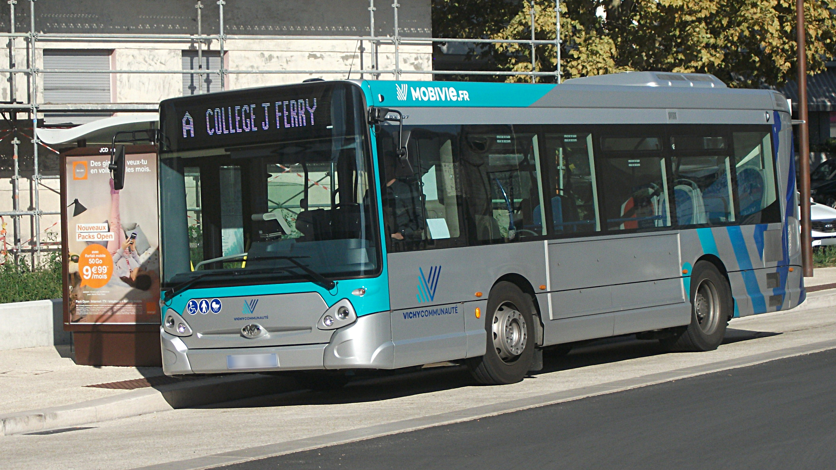 Heuliez GX 137 at Cusset Centre stop, in Cusset, Allier, Auvergne-Rhône-Alpes, France.